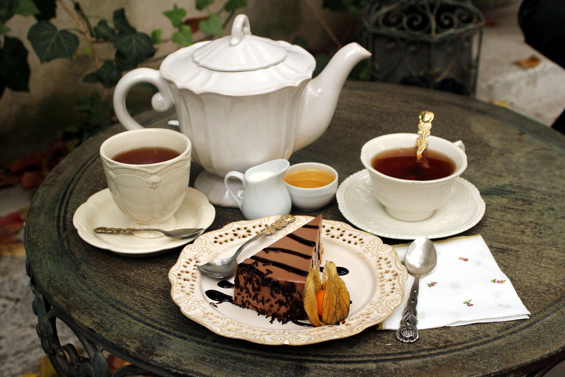 Black tea and chocolate cake